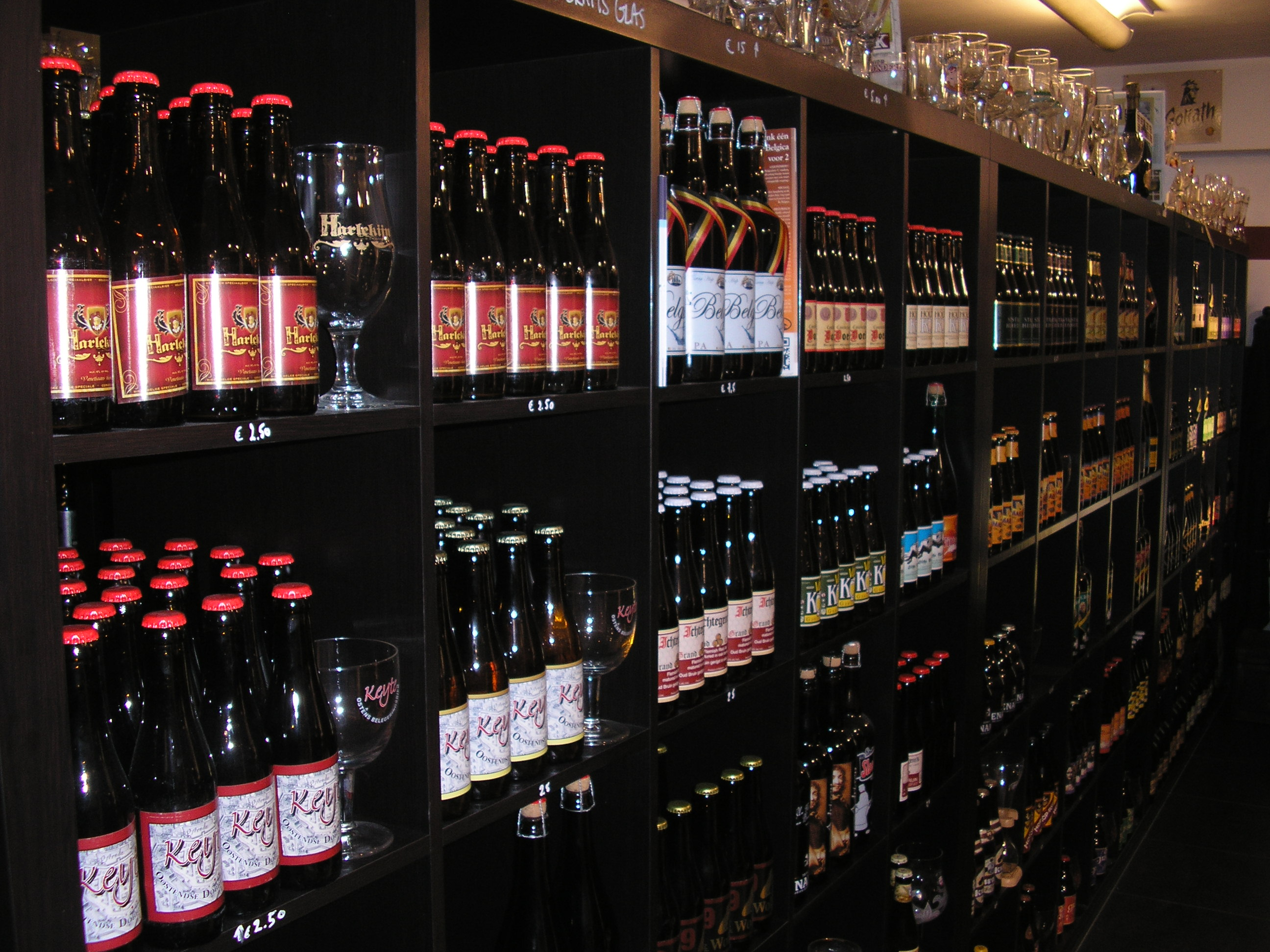 Beershop 't Koelschip